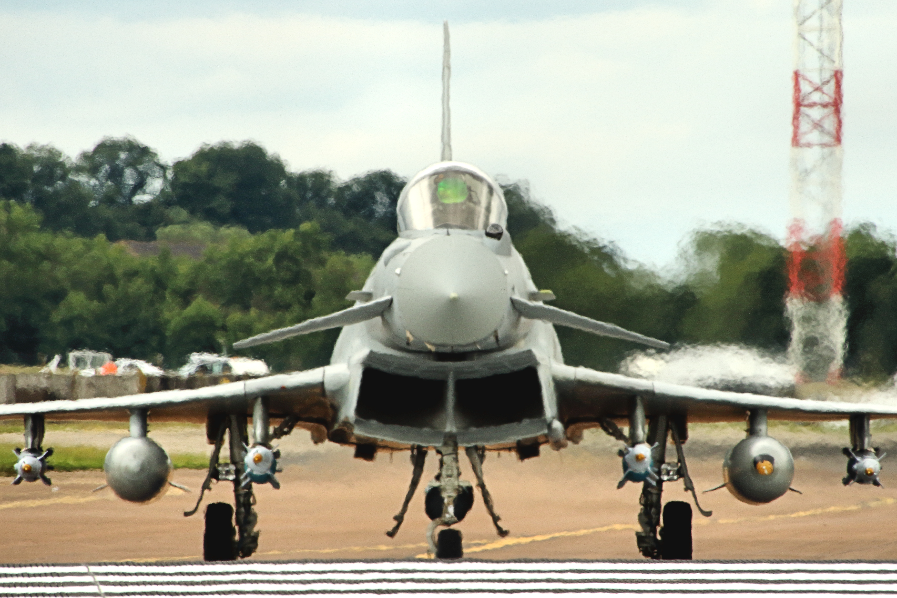 Typhoon - RIAT 2016